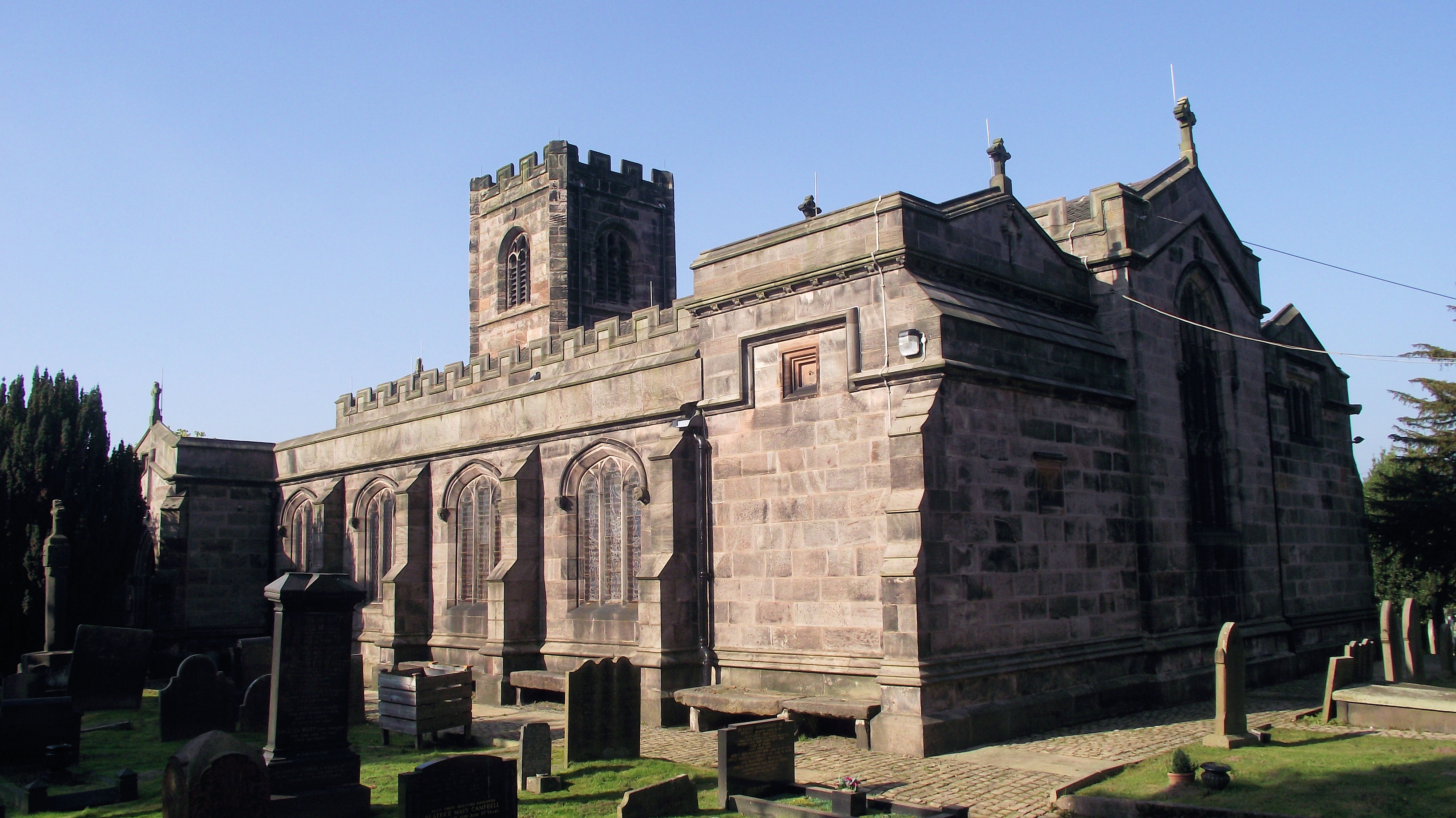 St Lawrence's parish church, Biddulph, Staffordshire, seen from the southeast